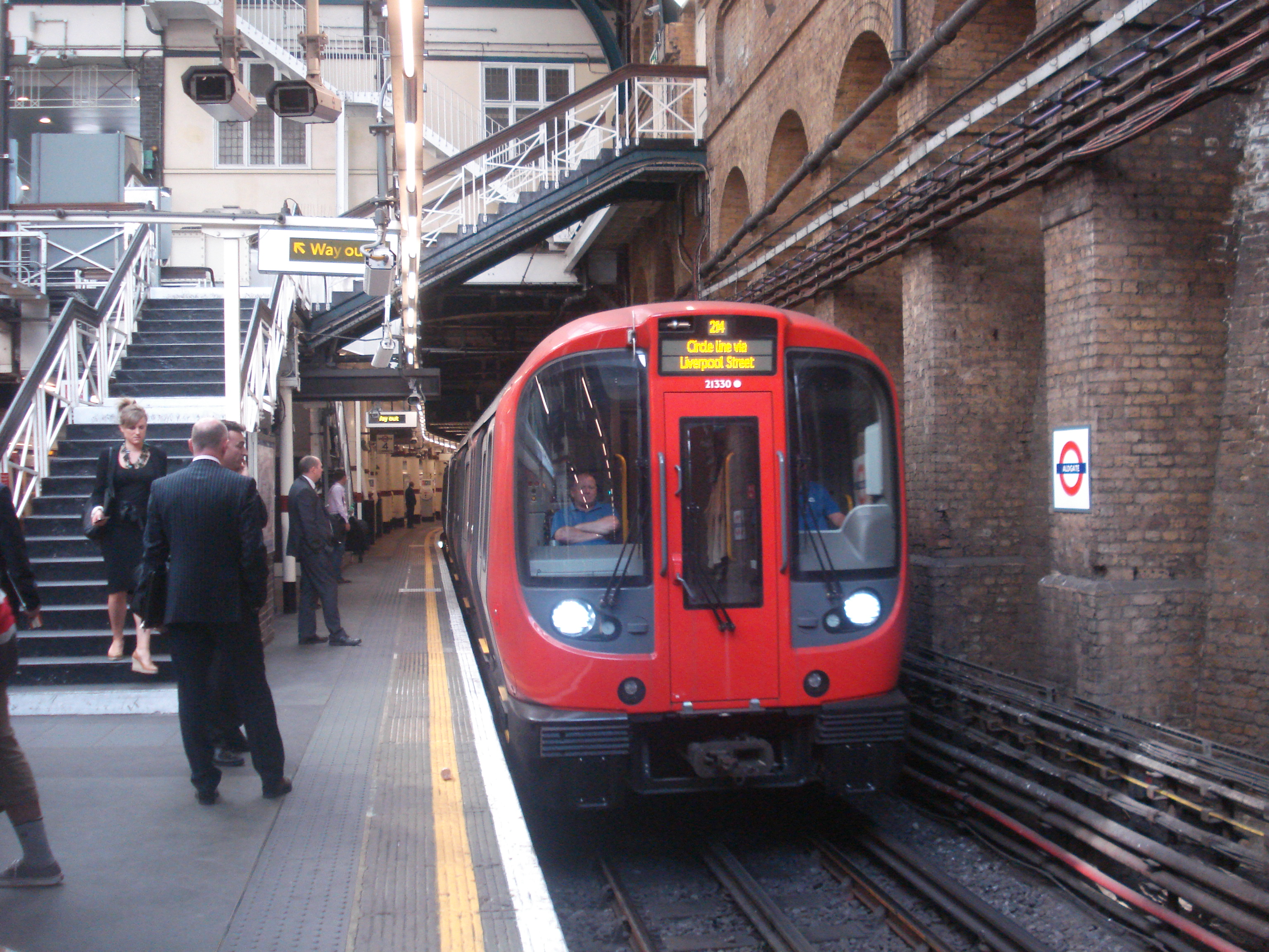 S7 21330 on Circle Line, Aldgate